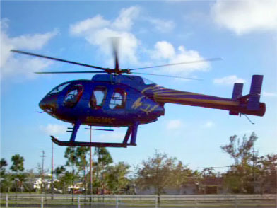 Photographed in flight at Helicopters of America in Pompano Beach, Florida. Photo by Danny Pryor. Free for any use.